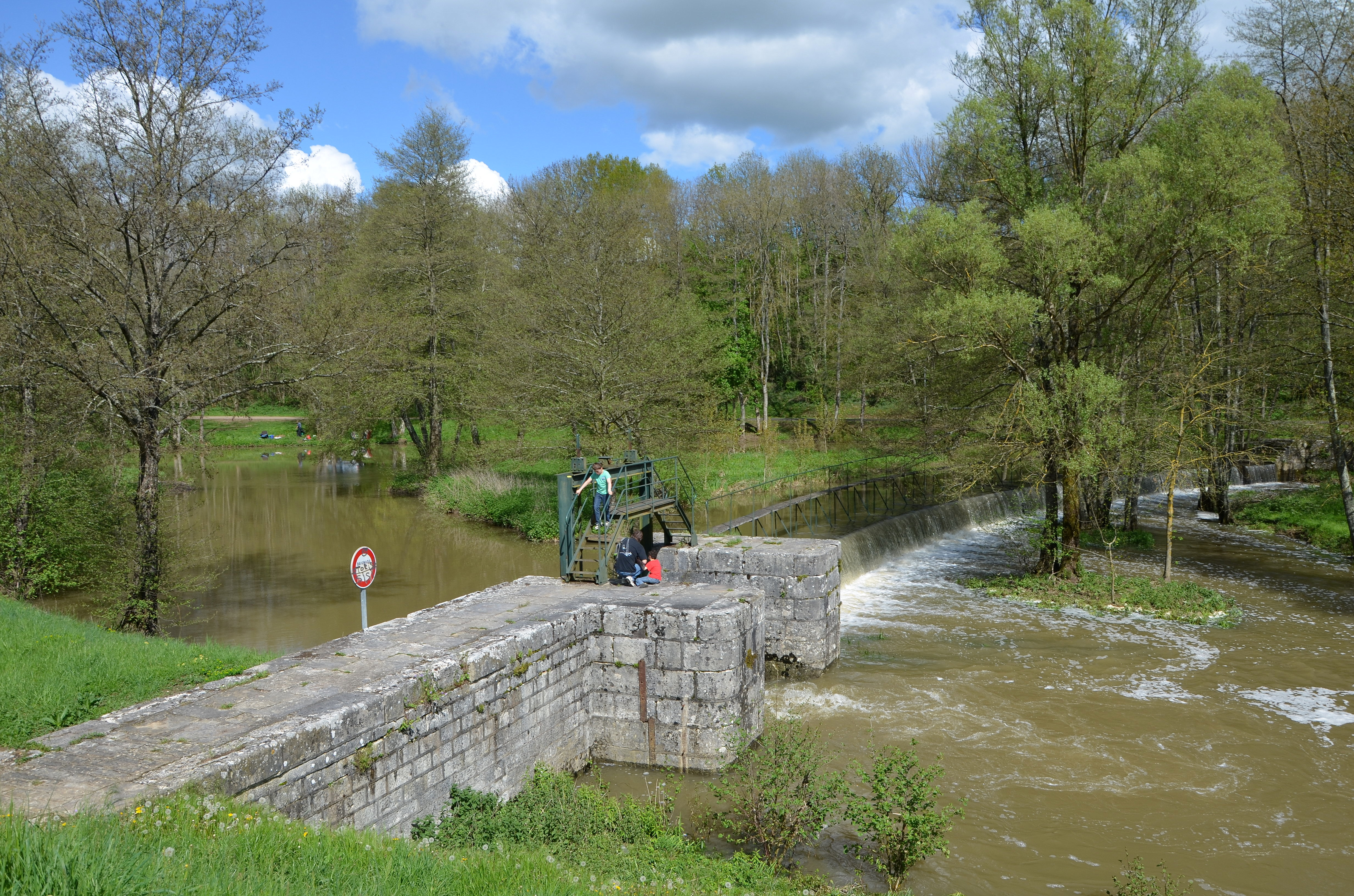 The river Aron near Chatillon en Bazois, Nièvre, France